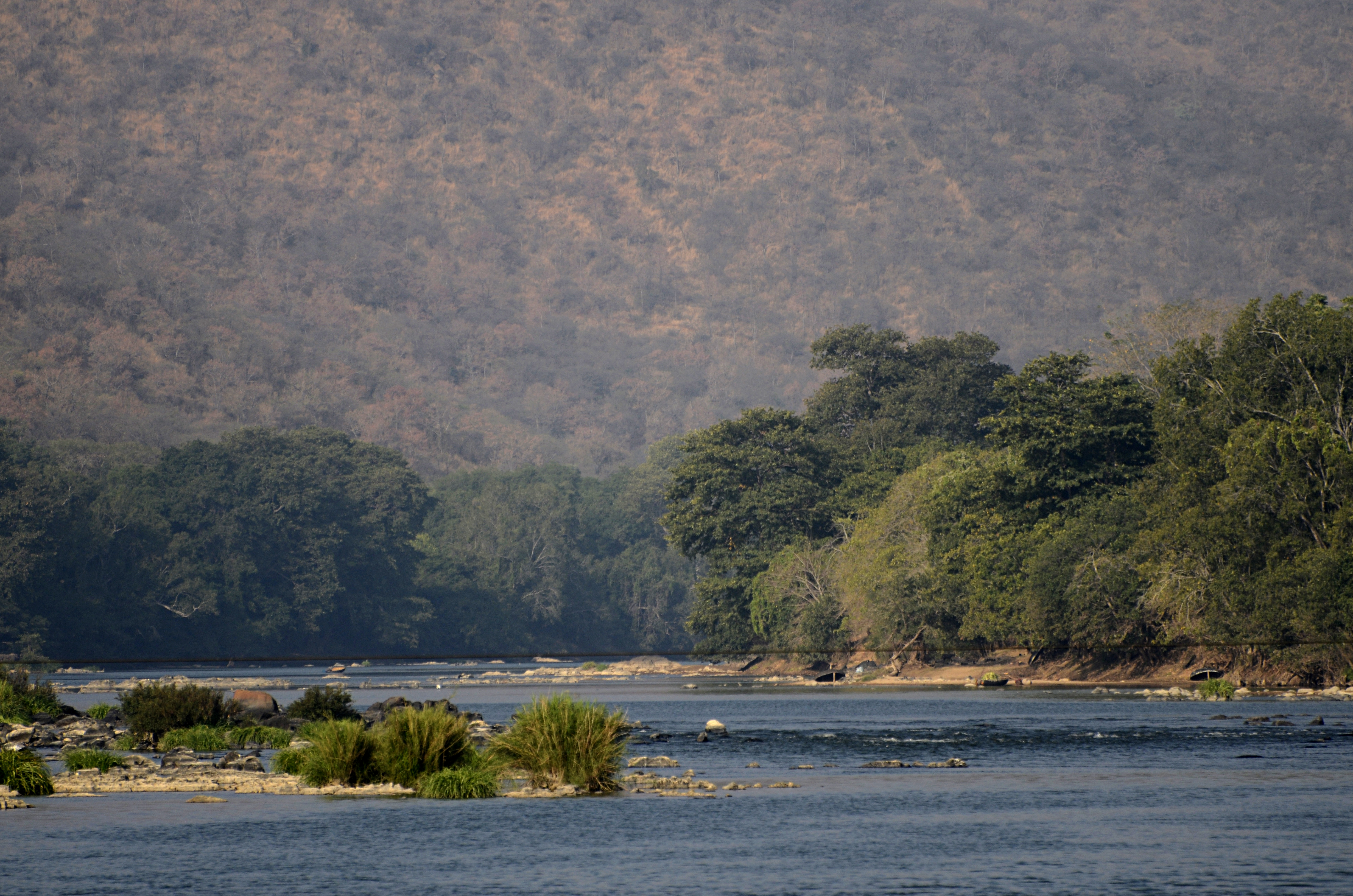 Kaveri river flowing_near Biligundlu. Note a wire (iron line) across the river. Center Water Commission Boat sail along this line to measure water. Just in case if you cant see this wire move the cursor around the image to see the infobox.